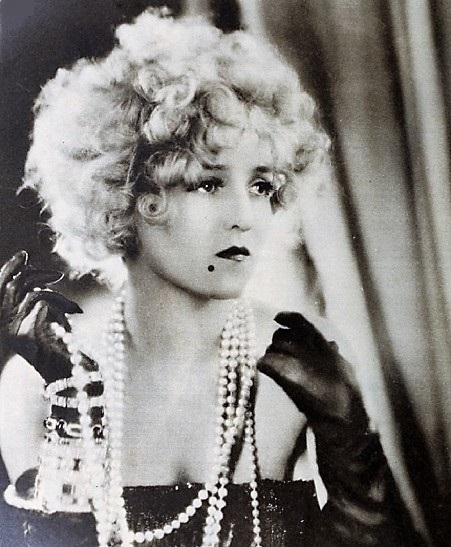 Ruth Taylor